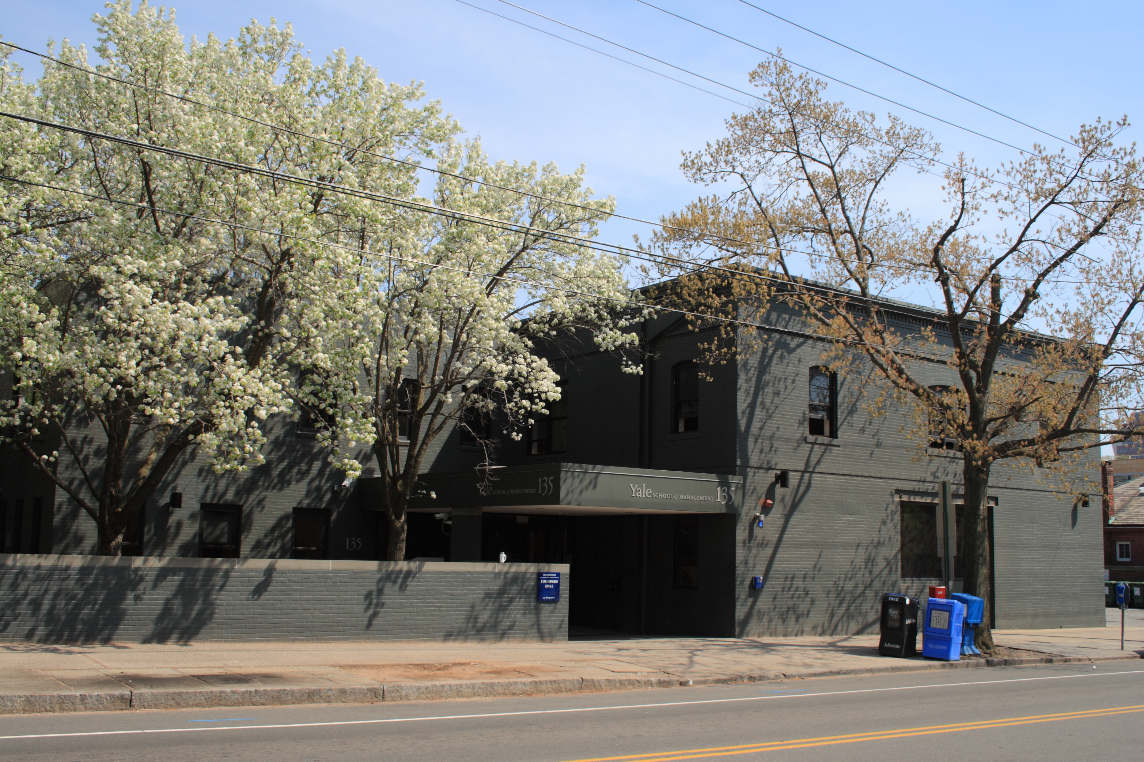 135 Prospect Street, one of the buildings of the Yale School of Management